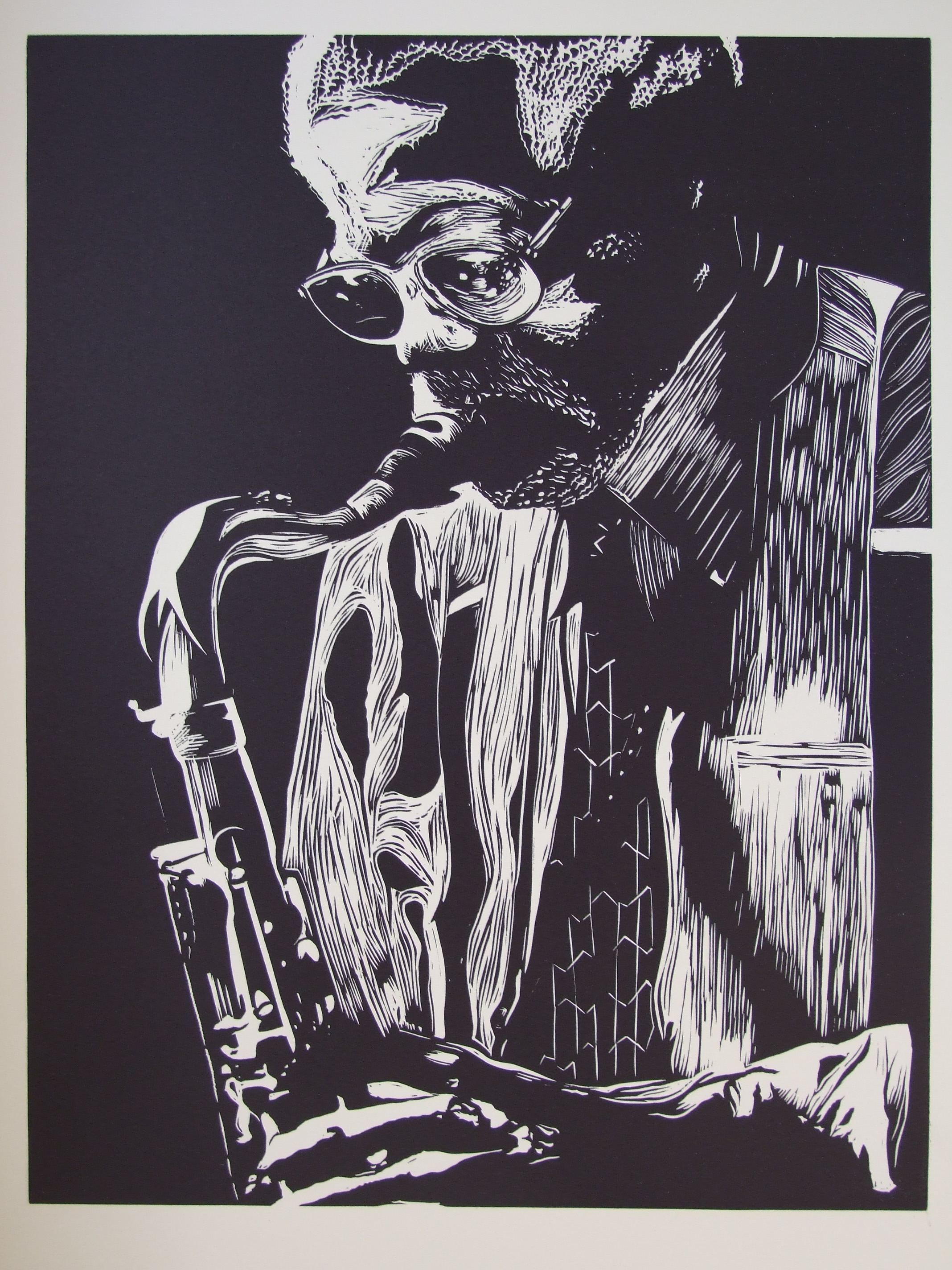 A Lino Print of the Late Joe Henderson